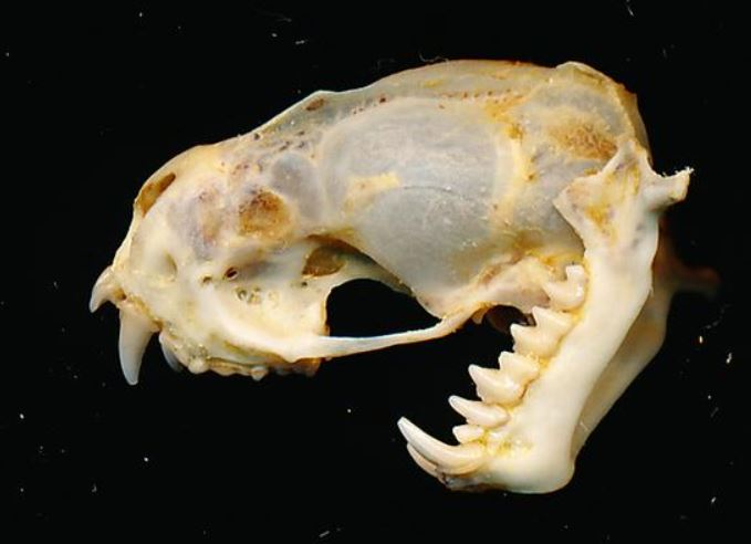 Big crested mastiff bat skull